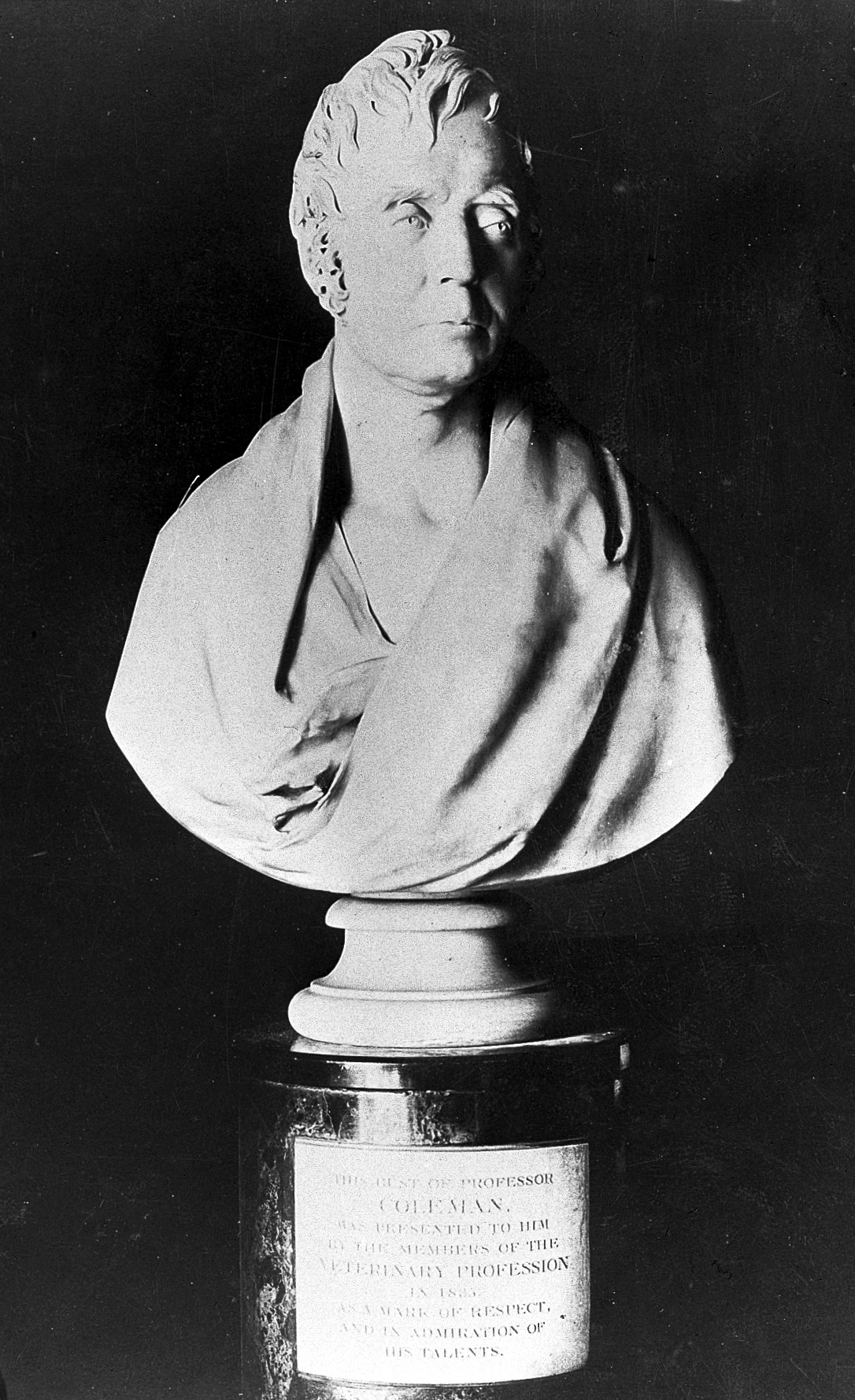 Portrait of Edward Coleman Iconographic Collections Keywords: Edward Coleman; Seiver